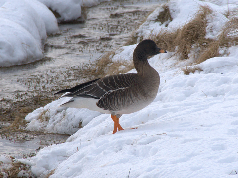 Tundra Bean Goose Anser serrirostris, Baltasound. In most areas Britain this species is a scarce migrant, often turning up as a cold weather migrant moved on by excessive snow and ice in the normal wintering areas in Denmark, Germany and the Netherlands.